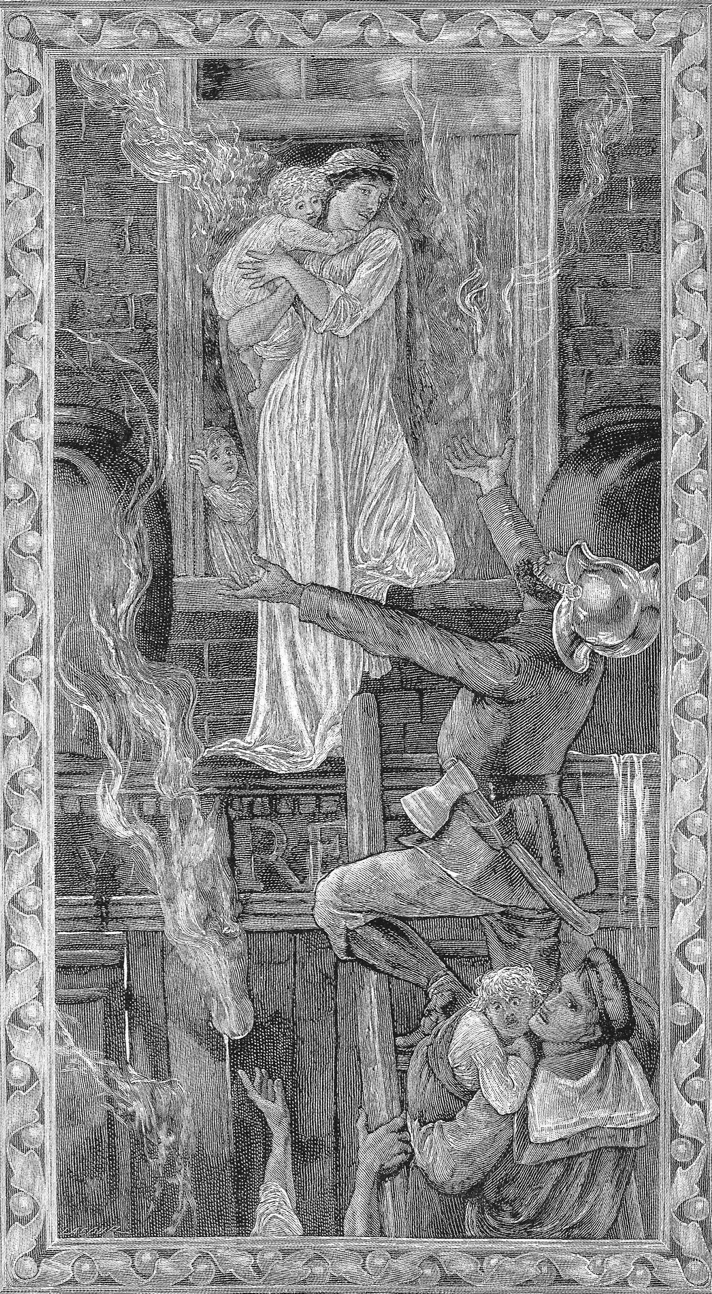 The Union Street Fire, Borough, London 24 April 1885